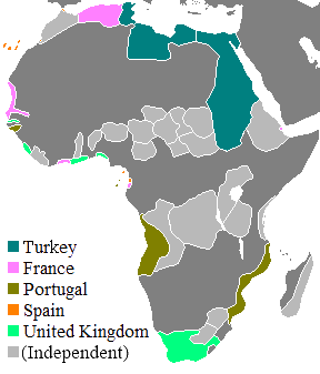 Map showing European claims on Africa in 1970.